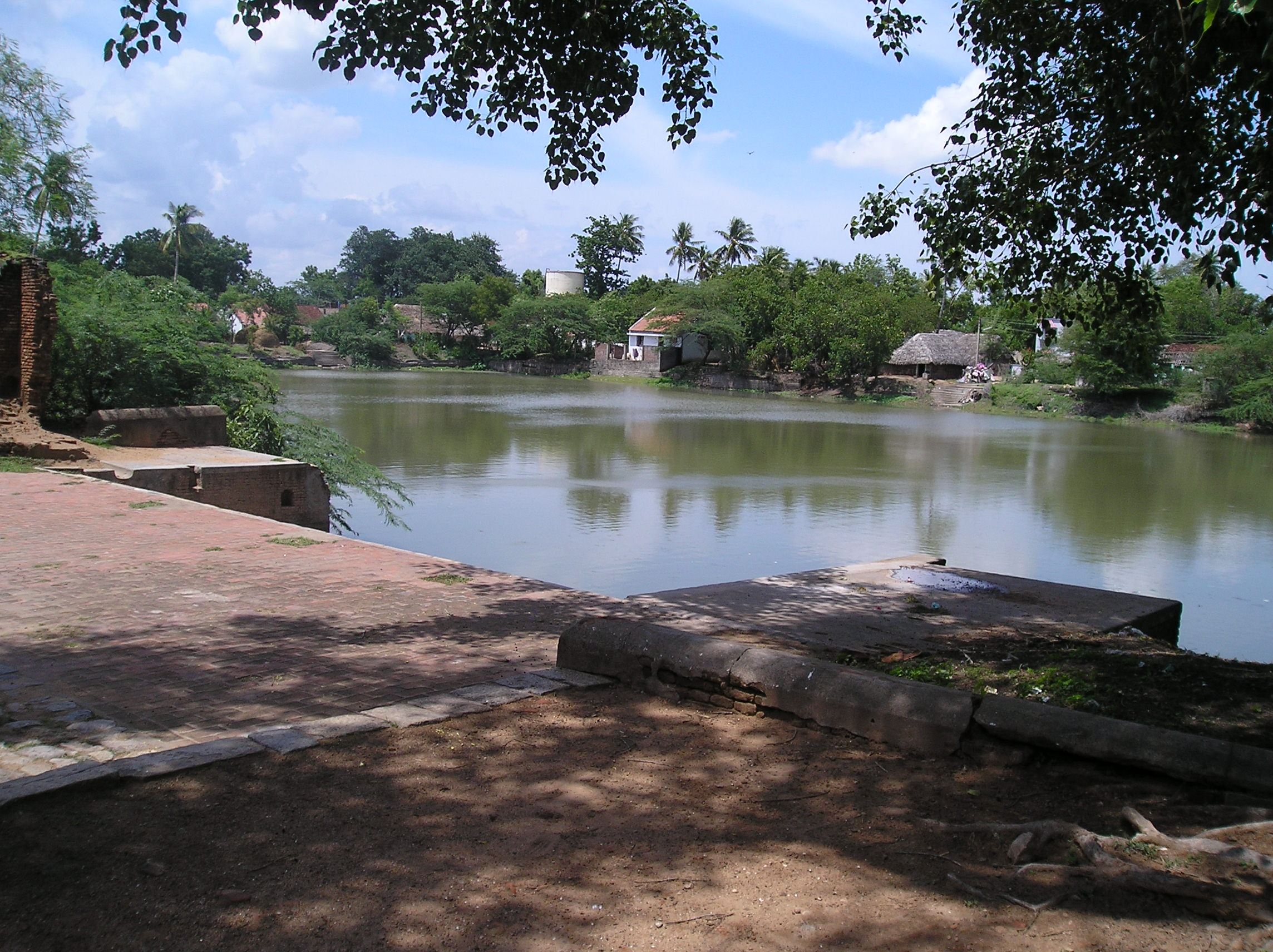 Pictures of Tirunallur